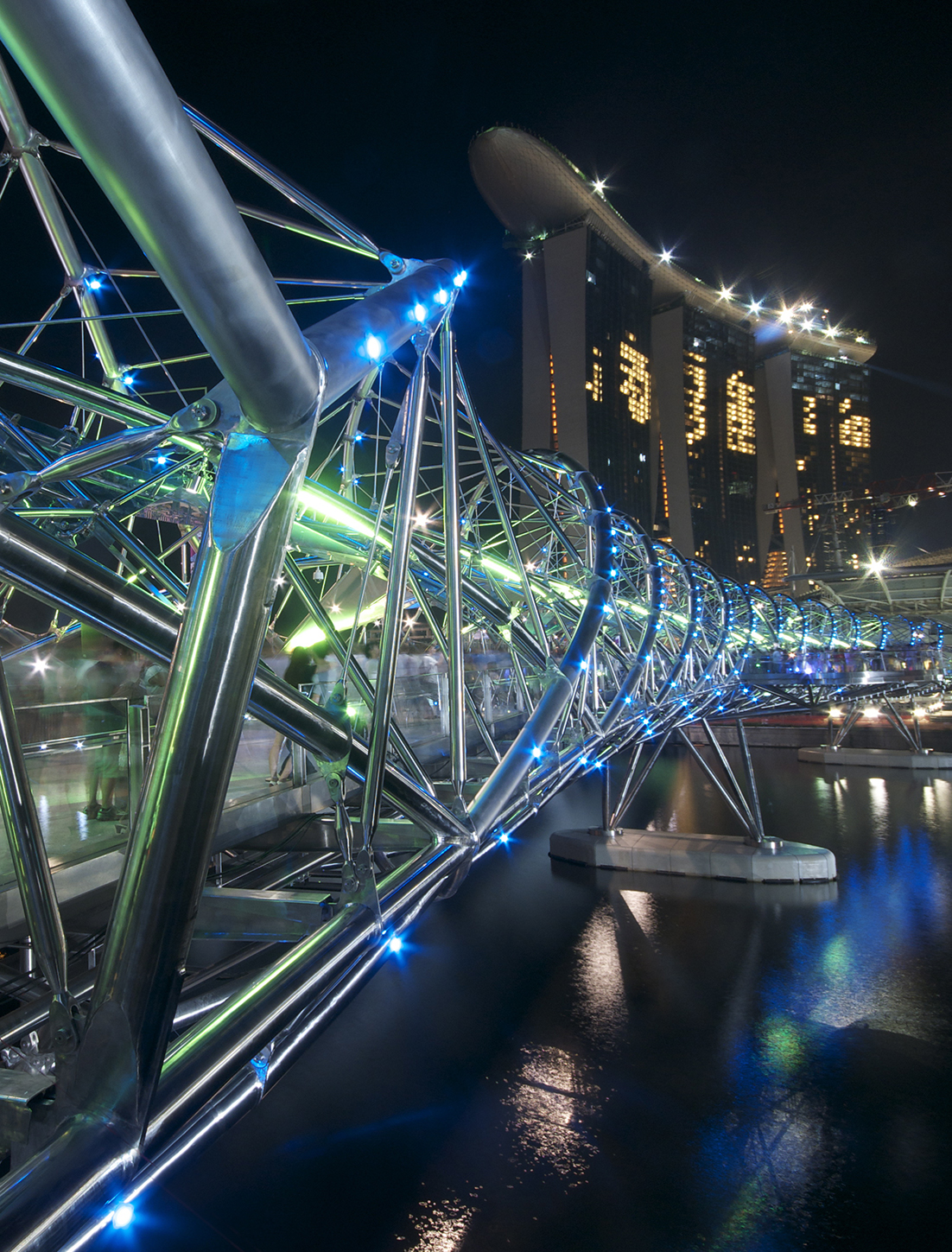 The Double Helix Bridge at Marina Bay, entertainment district, at night.